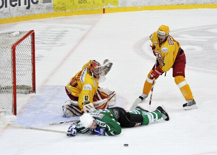 zigo palffy